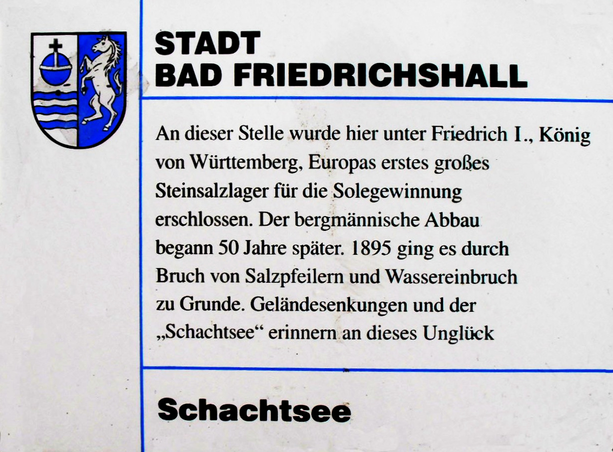 The "Schachtsee" (mine shaft lake) in Bad Friedrichshall, Germany